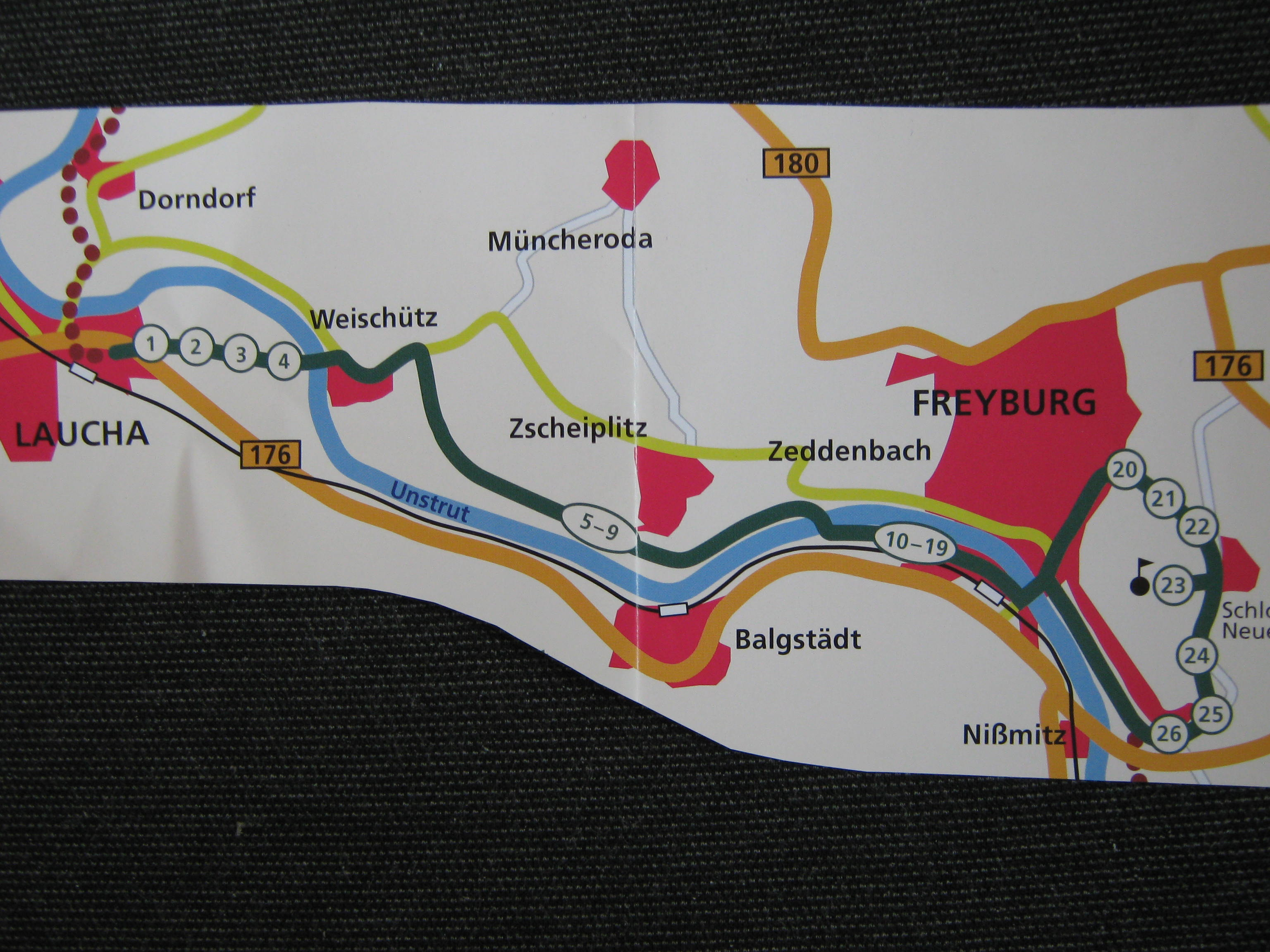 Wine path Saale-Unstrut between Laucha and Freyburg, Germany